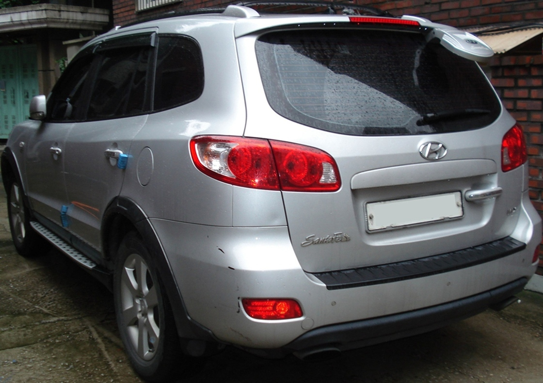 Hyundai Santa Fe